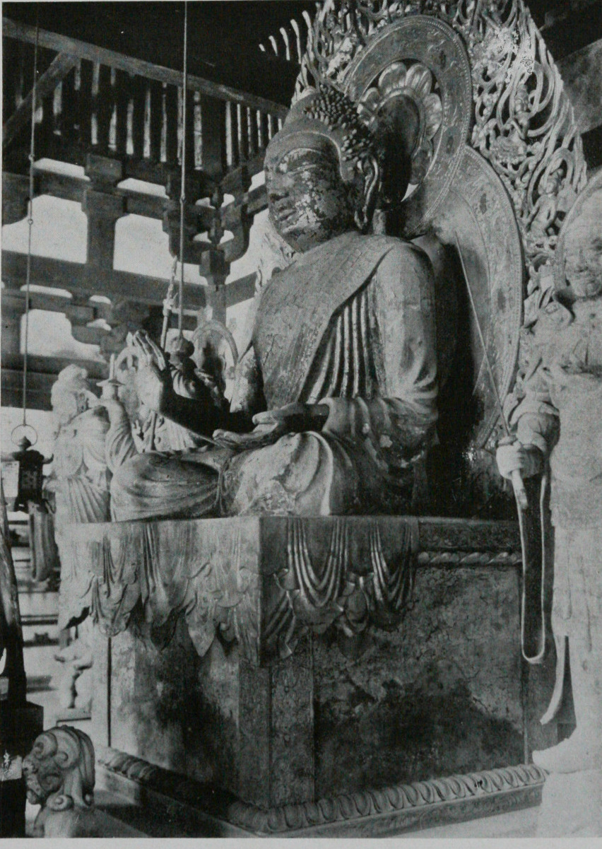 Miroku Nyorai(Maitreya as Future Buddha ). Oldest Maitreya Buddha statue in Japan, Asuka period, late 7th century or early 8th century, Clay, gold leaf over lacquer, 219.7 cm (86.5 in), Nara Taimadera Kondo, Nara, Japan